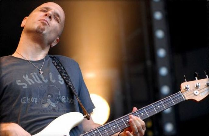 Eric Grossman, bassist for K's Choice